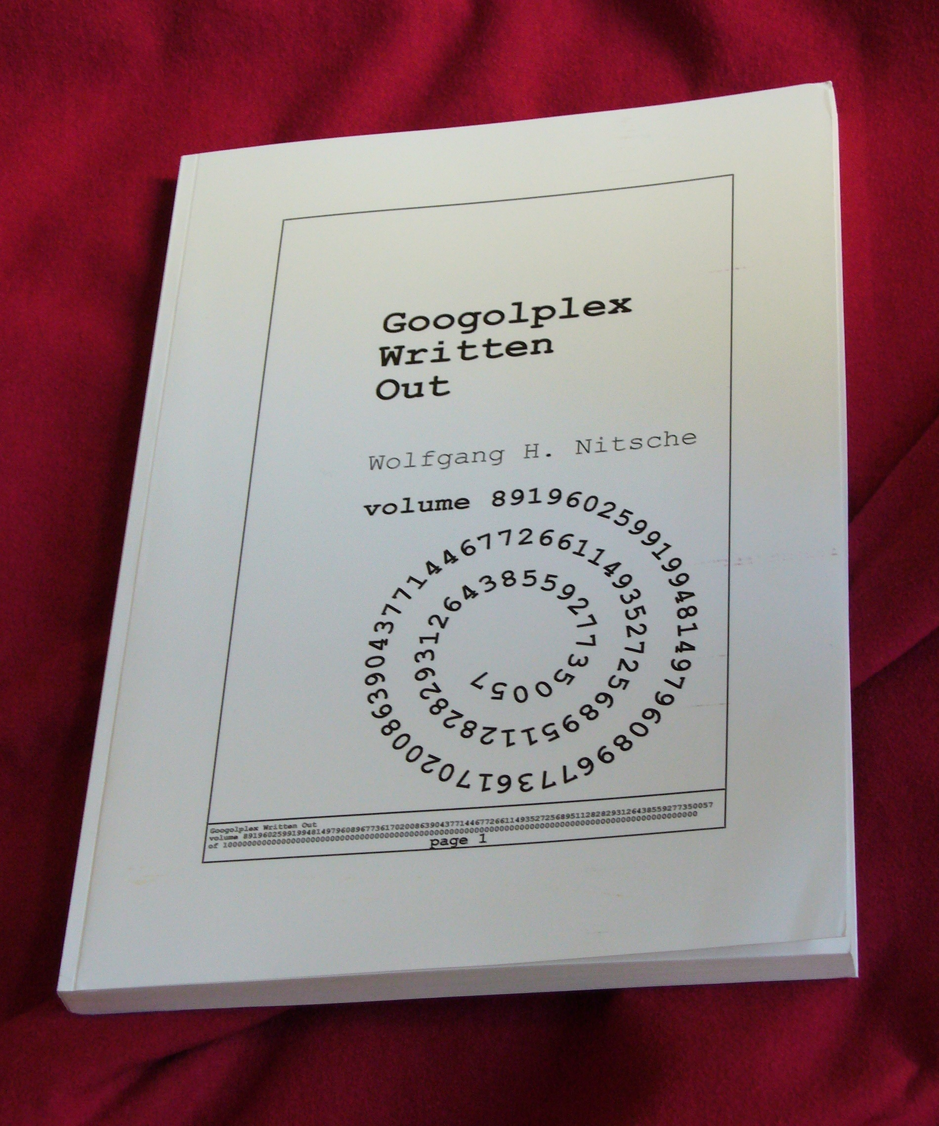 Googolplex Written Out; photo of book.